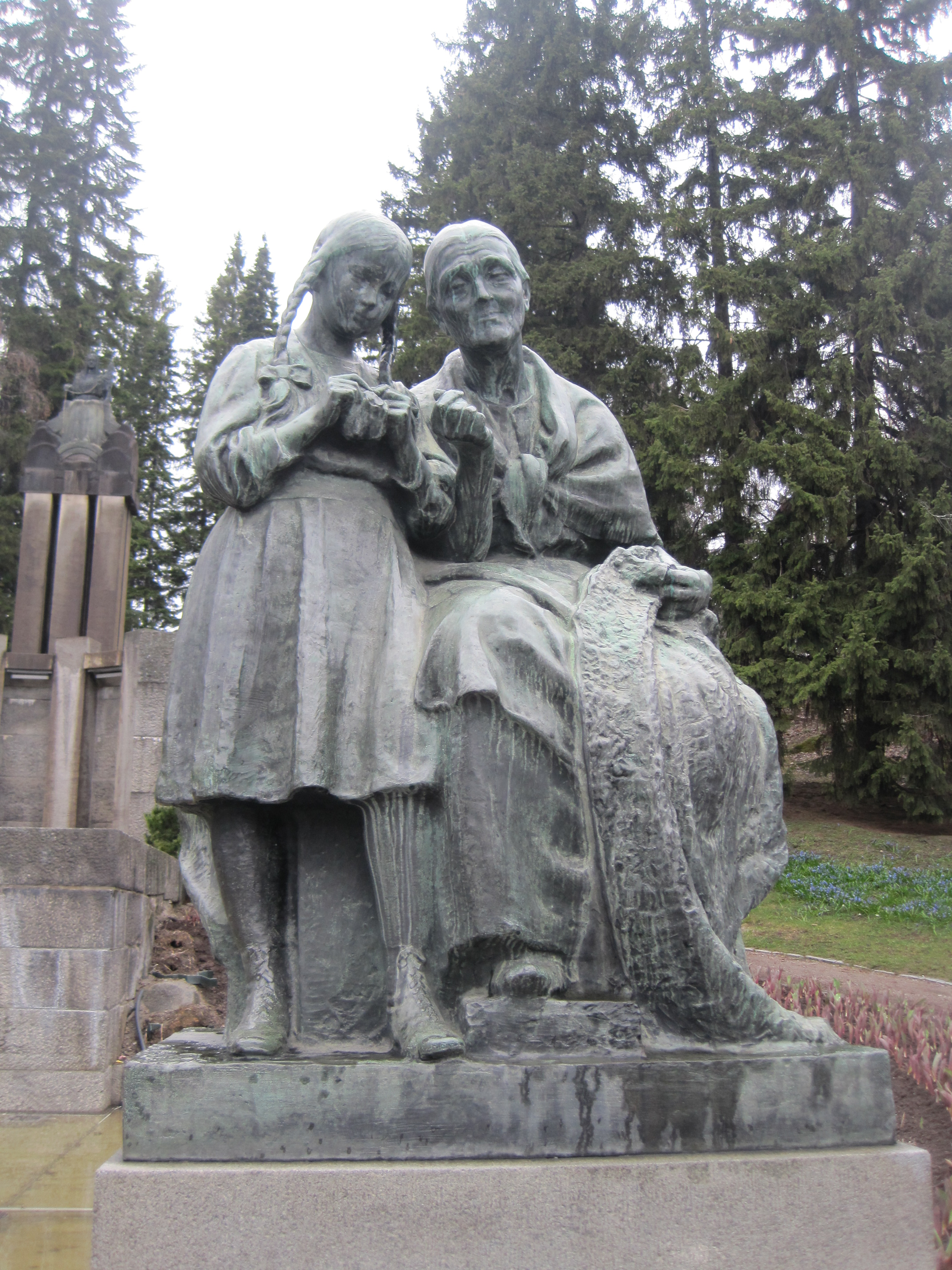 Emil Wikström (1864–1942): Näsikallion suihkukaivo (1913), Tampere, Finland check usage